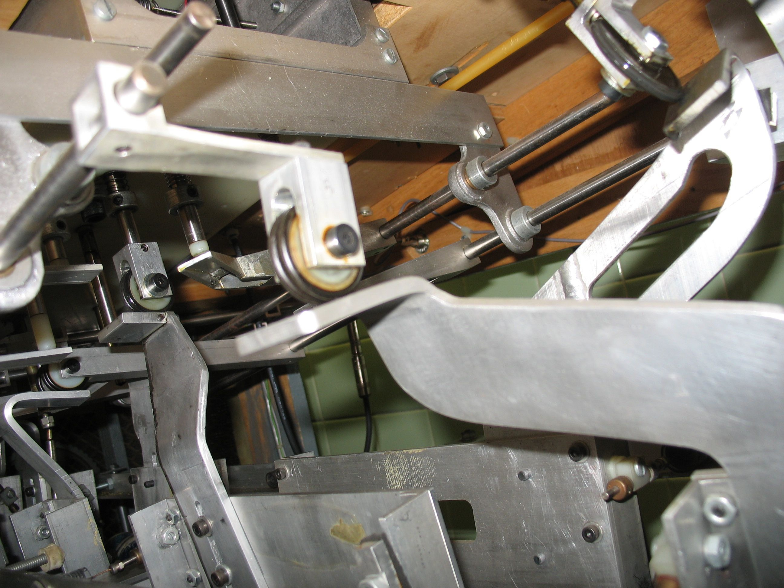 The levers that drive the motion of the old "Harvey" mannequin.